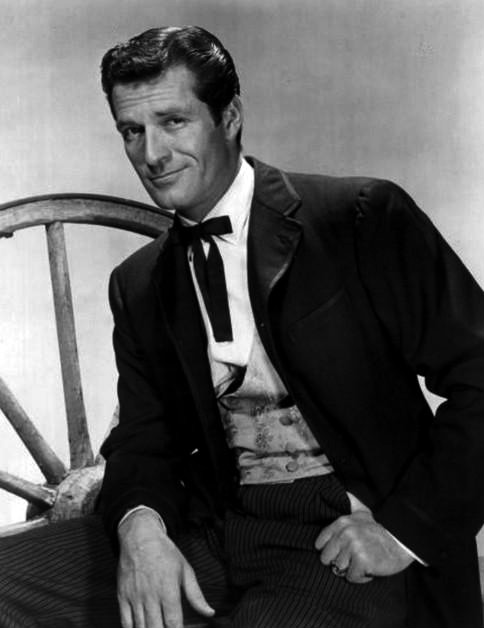 Photo of Hugh O'Brian as Wyatt Earp from the television program The Life and Legend of Wyatt Earp.